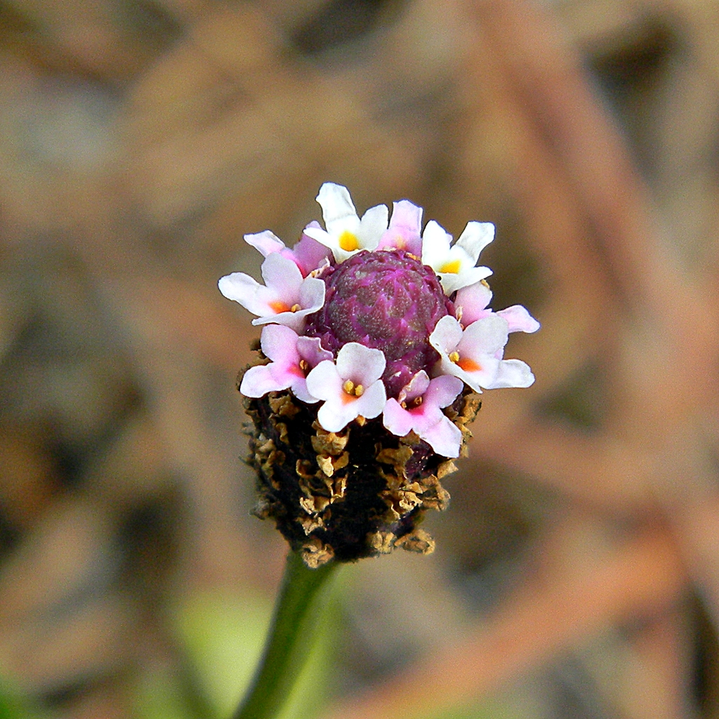 Frogfruit (Turkey tangle, Matchweed, Capeweed) is a tiny creeping wildflower that is a host plant for several butterflies including the phaon crescent. The inflorescence is very pretty but a magnifying glass is needed to see the detail of the little flowers. It grows happily in poor sandy soil. These were blooming at Sweetbay Natural Area along the main sidewalk. I like this little plant! There are always interesting creatures around it and watching it gives me an excuse to sit or lie down.